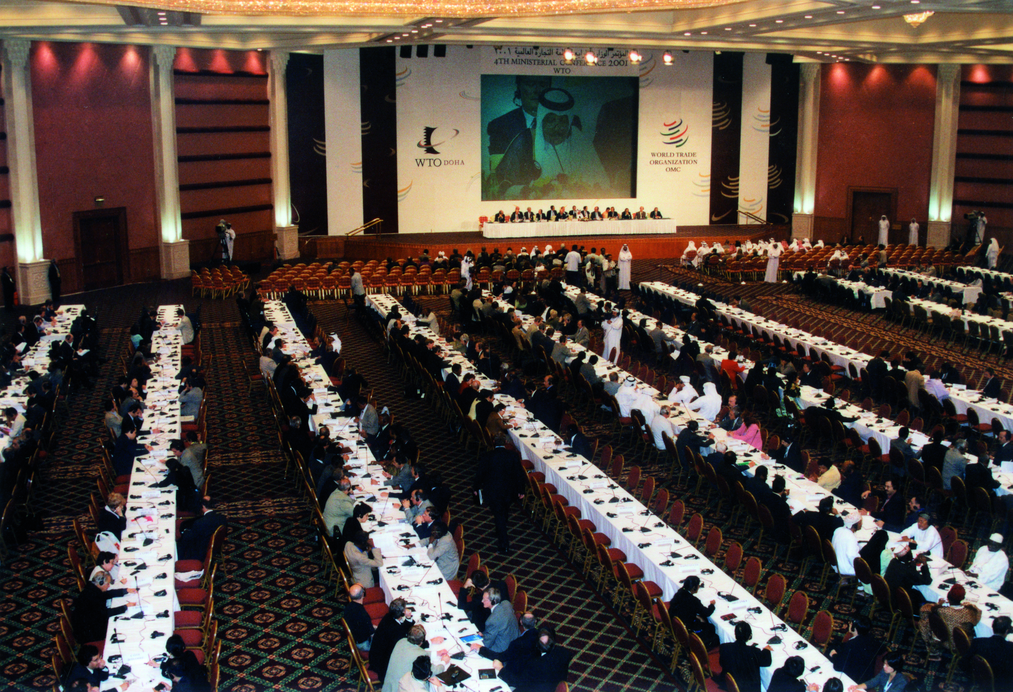 These photos may be reproduced provided attribution is given to the WTO and the WTO is informed. Photos: © WTO